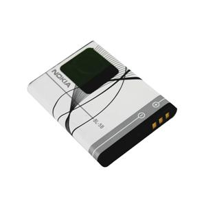 Nokia BL-5B lithium-ion battery